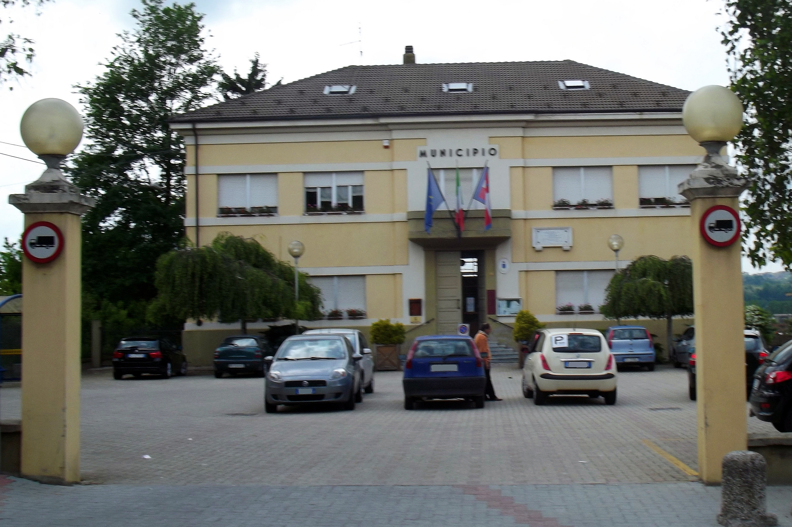 Isola d'Asti (AT, Italy): town hall